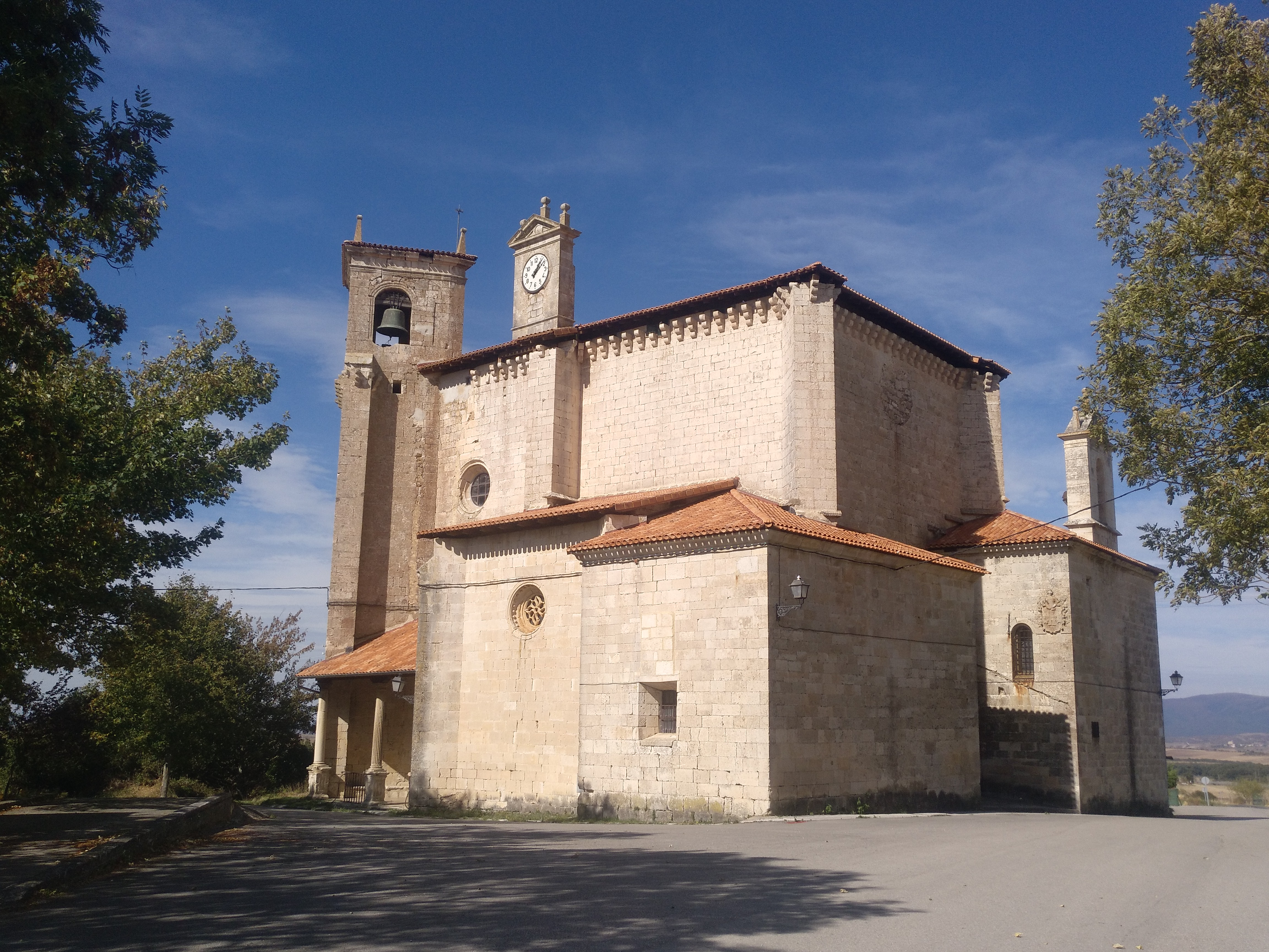 Church of Bikuña in Donemiliaga municipality